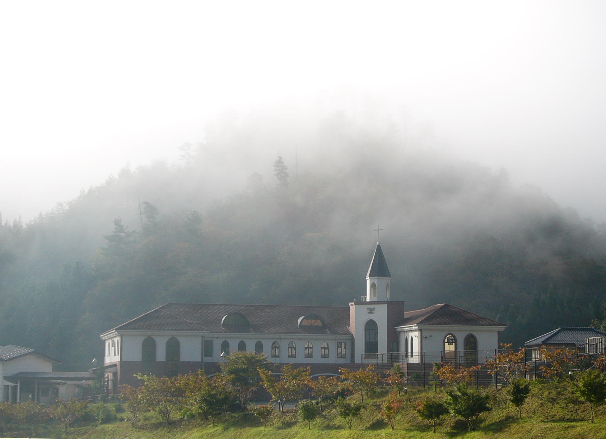 Logos Theological Seminary